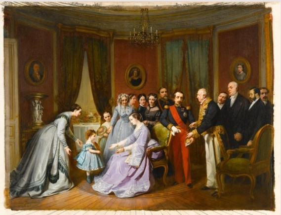 Depiction of the Emperor Napoleon III and the Empress Eugénie just after arriving for lunch at the house of Count-Senator Auguste Mimerel. The senator, dressed in his ornate official costume, is addressing the emperor. His son, Édouard (1812-1889) and his grandson Armand (1839-1889) are behind him, holding hands. Auguste Mimerel's wife, Joséphine, is standing behind the empress, who is seated. Julie-Émilie, Armand's wife, is behind her small daughter Laure, who is presenting a gift to the empress.